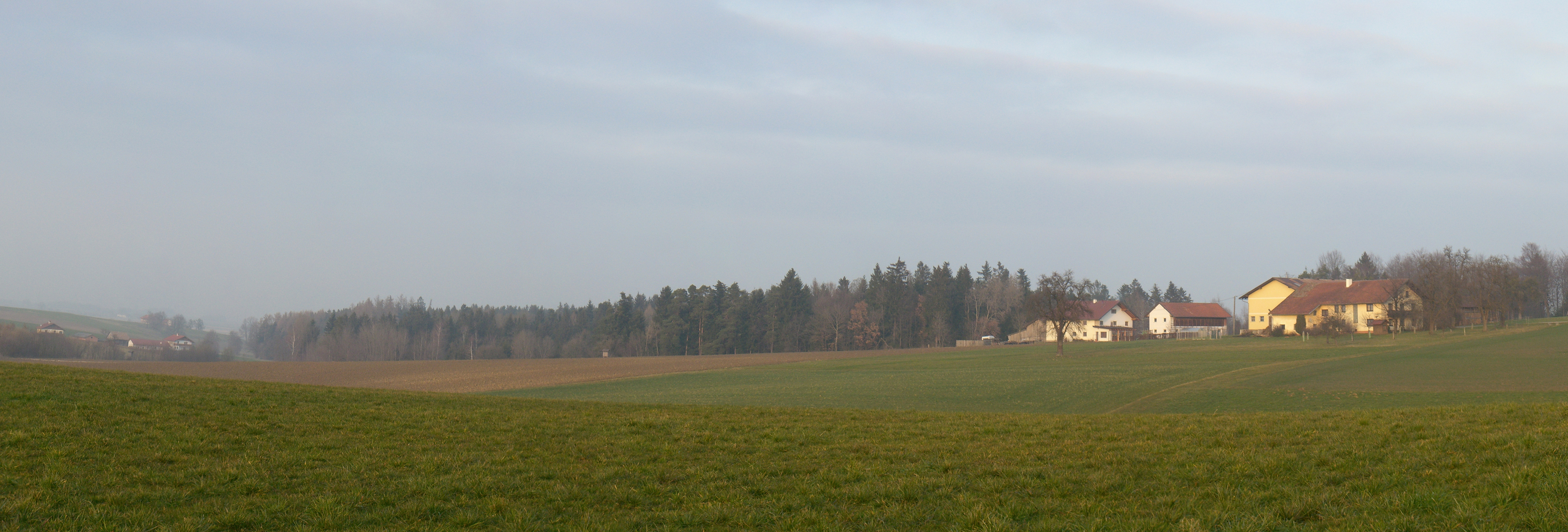 Landscape in Innviertel, Upper Austria (Wollöster, Burgkirchen) with a farm on the left side of the picture. This is a multi segmented panorama.